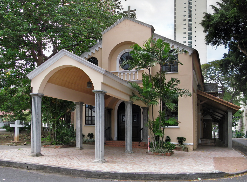 Church of San Francisco de la Caleta, San Francisco, Panama City.